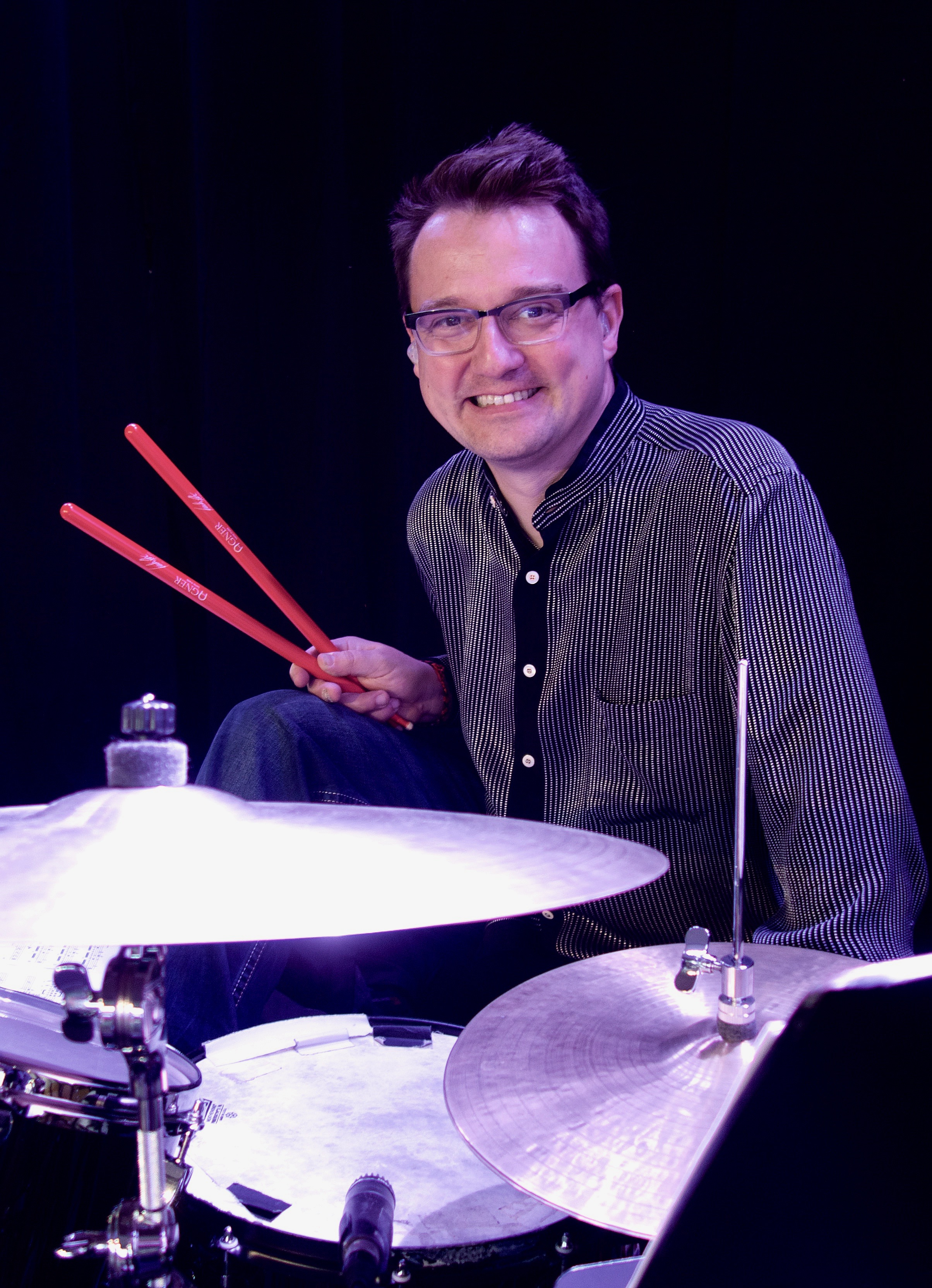 Markus Faller, a German drummer on stage at a Jazz festival in Bühl, Germany in 2019 called "Jazztival Bühl".